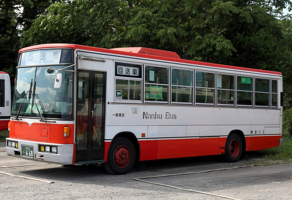 Nanbu Bus Isuzu Journey K (KC-LR333J,FHI 8E body,topdoor,with permission)